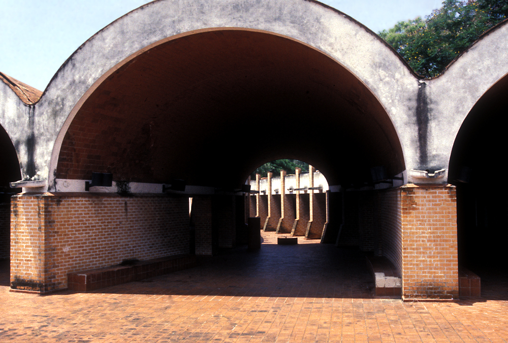 Photograph of architect Ricardo Porro's school of plastic arts, part of Cuba's National Art Schools. The concept for this school was intended to evoke an archetypal African village, creating an organic urban complex of streets, buildings and open spaces. The studios, oval in plan, are the basic cell of the complex. Each one was conceived as a small arena theater with a central skylight to serve students working from a live model. The studios are organized along two arcs, both of which are curving colonnaded paths. Lecture rooms and offices are accommodated in a contrasting blocklike plan that is partially wrapped by and engaged with the colonnaded path. Ideas of gender and ethnicity converge in the curvilinear forms and spaces of Plastic Arts. Most notable is how the organic spatial experience of the curvilinear paseo archetectonico delightfully disorients the user not being able to fully see the extent of the magic realist journey being taken.